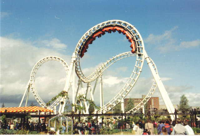 The Coca Cola Roller thrill ride at the Glasgow Garden Festival in 1988. This death-defying, loop-the-loop, rollercoaster trip was not for the faint-hearted!